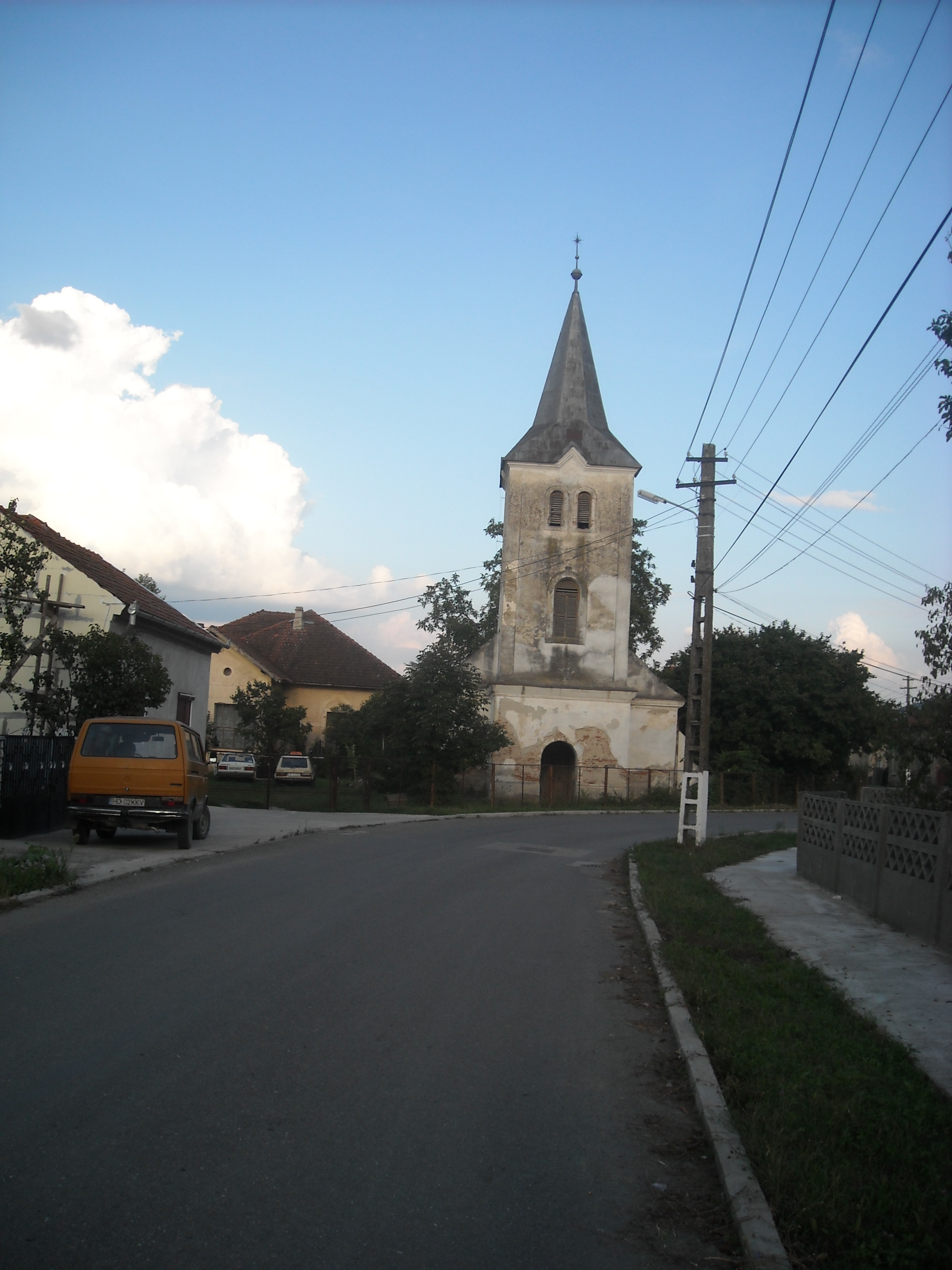 reformed church in Ilia (Marosillye), Hunedoara County, Romania